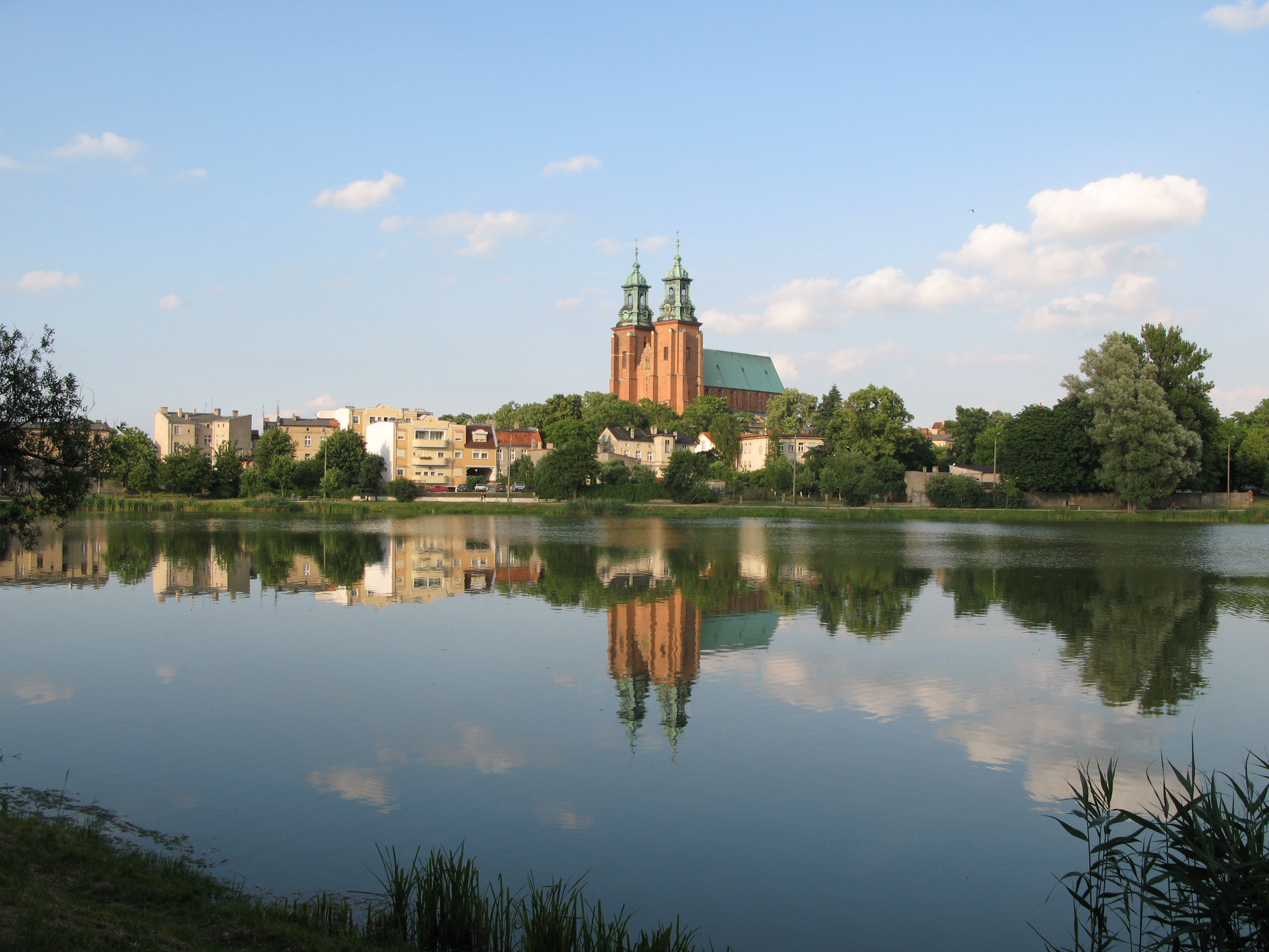 Old-Gniezno from the lake Jelonek.